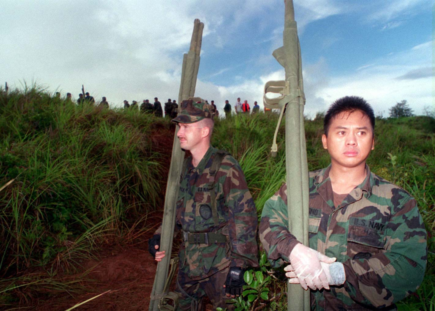 U. S. Navy Auxiliary Security Force members stand by to assist in rescue efforts in response to the crash of Korean Airlines flight 801 on Aug 6, 1997. U.S. Navy, U.S. Coast Guard, U.S. Air Force, and numerous civilian rescue teams, currently assisting in the search and rescue efforts of KAL flight 801, evacuated survivors from the crash site during the early morning of August 6th.